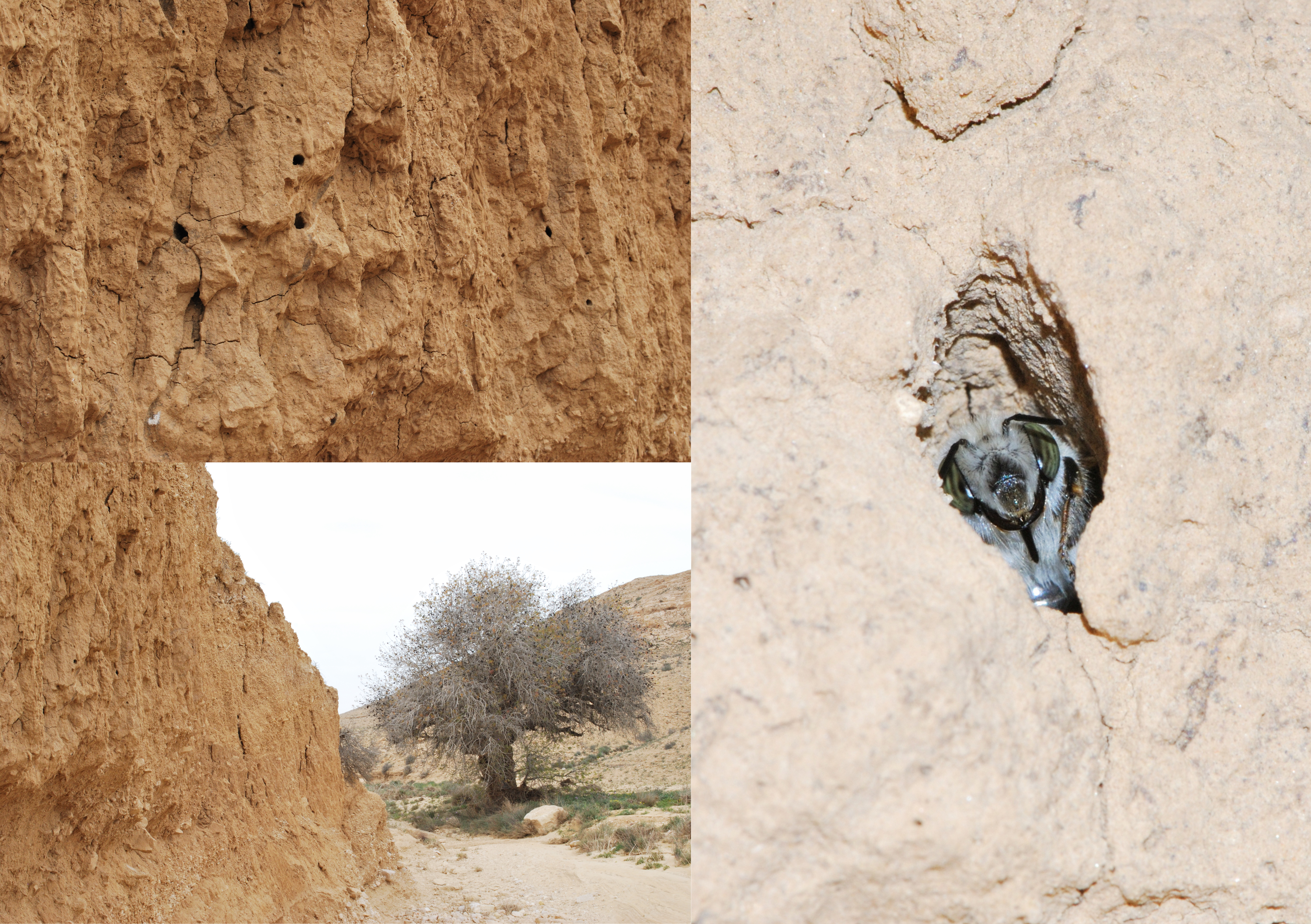 Gregarious nesting site of wild bees (Anthophora senescens Lepeletier, 1841) in a vertical clay cliff of a seasonal water course, Wadi Elot, Negev Mountains, Israel, March 5, 2010.